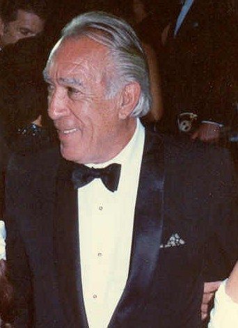 Anthony Quinn exits the theater after the 40th Annual Primetime Emmy Awards, 8/28/88 (cropped from Image:Anthony Quinn (1988).jpg)